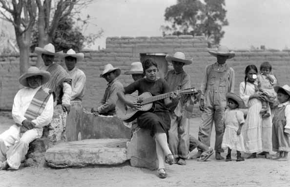 Depicted person: Concha Michel – Mexican artist, researcher, and activist